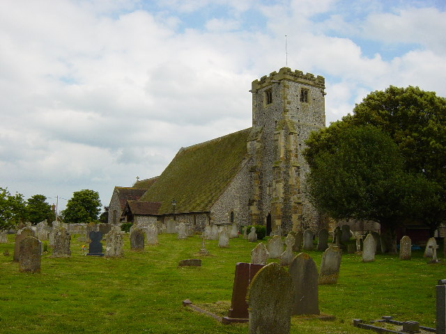 St Mary Magdalene parish church, Lyminster, West Sussex, seen from the northwest